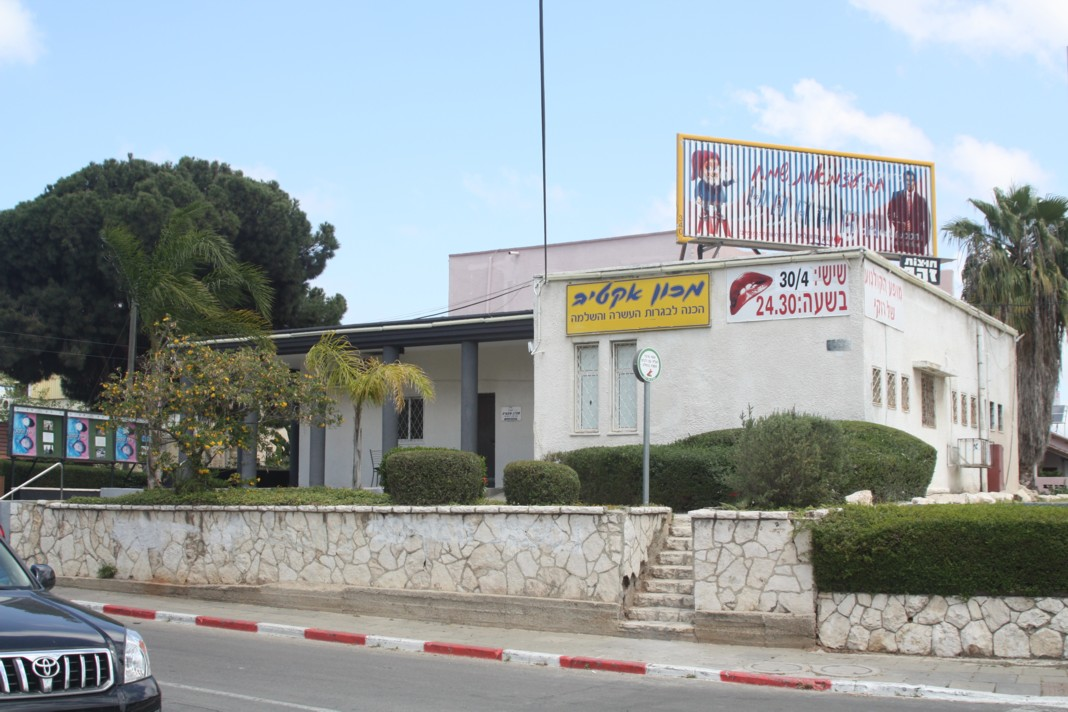 Kokhav Cinema, Ramat Hasharon